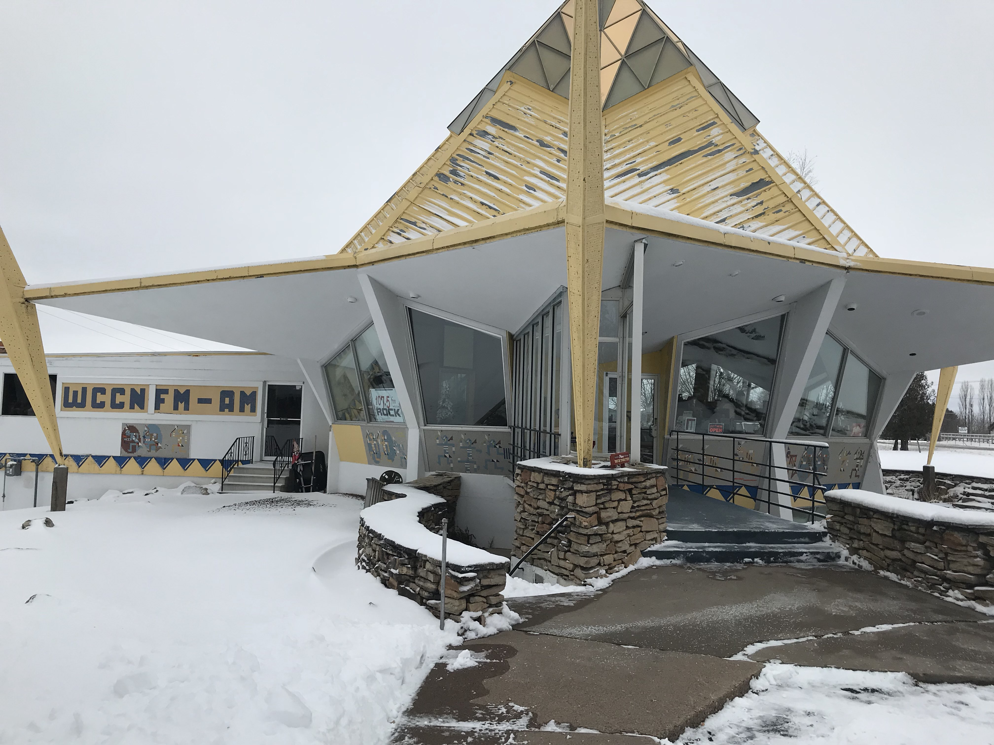 WCCN studio in Neillsville, Wisconsin